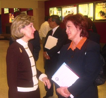 Senator Kay Bailey Hutchison with Mayor Betty Flores of Laredo hold a press conference at the Laredo Airport regarding airport security and trade. -- (12/9/02)